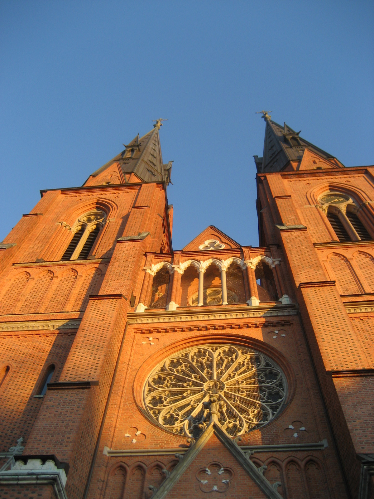 The Uppsala Cathedral towers in Uppsala, Sweden